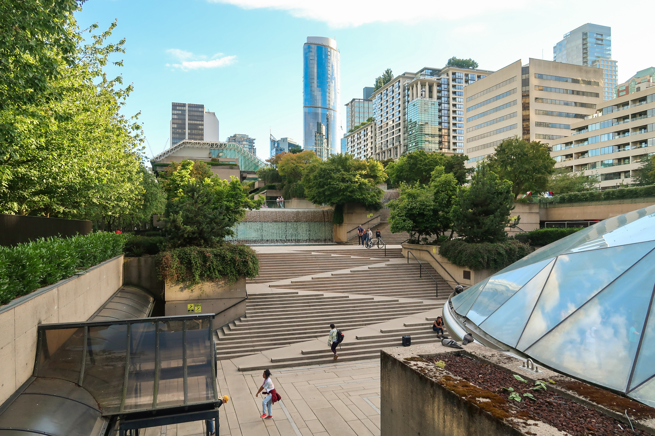 Robson Square waterfall